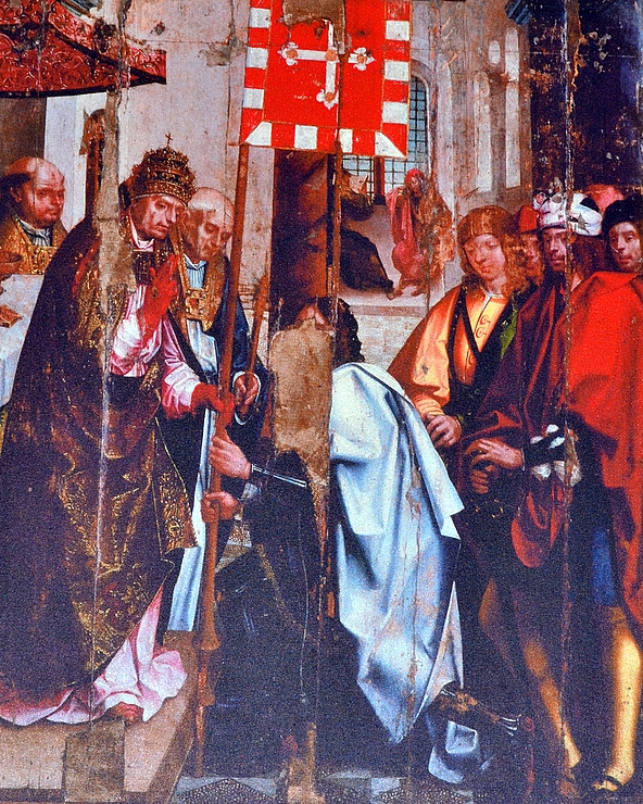 A Entrega da Bandeira a um Mestre da Ordem de Santiago é uma pintura a óleo sobre madeira pintada no período de 1520 a 1525 presumivelmente pelo pintor que se designa por Mestre da Lourinhã que fazia parte do Políptico da Igreja do Convento de Santiago que se encontra actualmente na Museu Nacional de Arte Antiga, em Lisboa